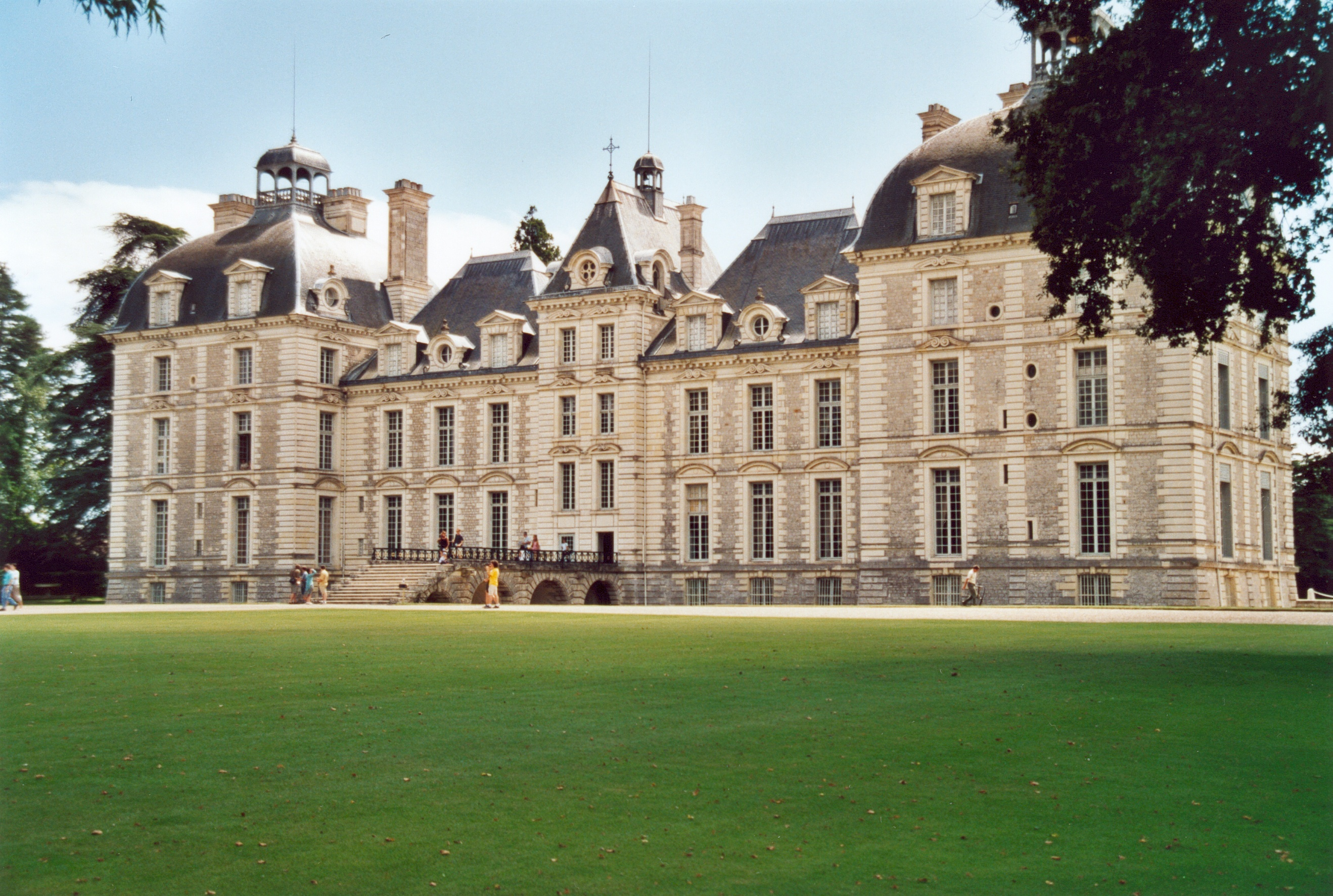 France : Castle of Cheverny (Loir et Cher)